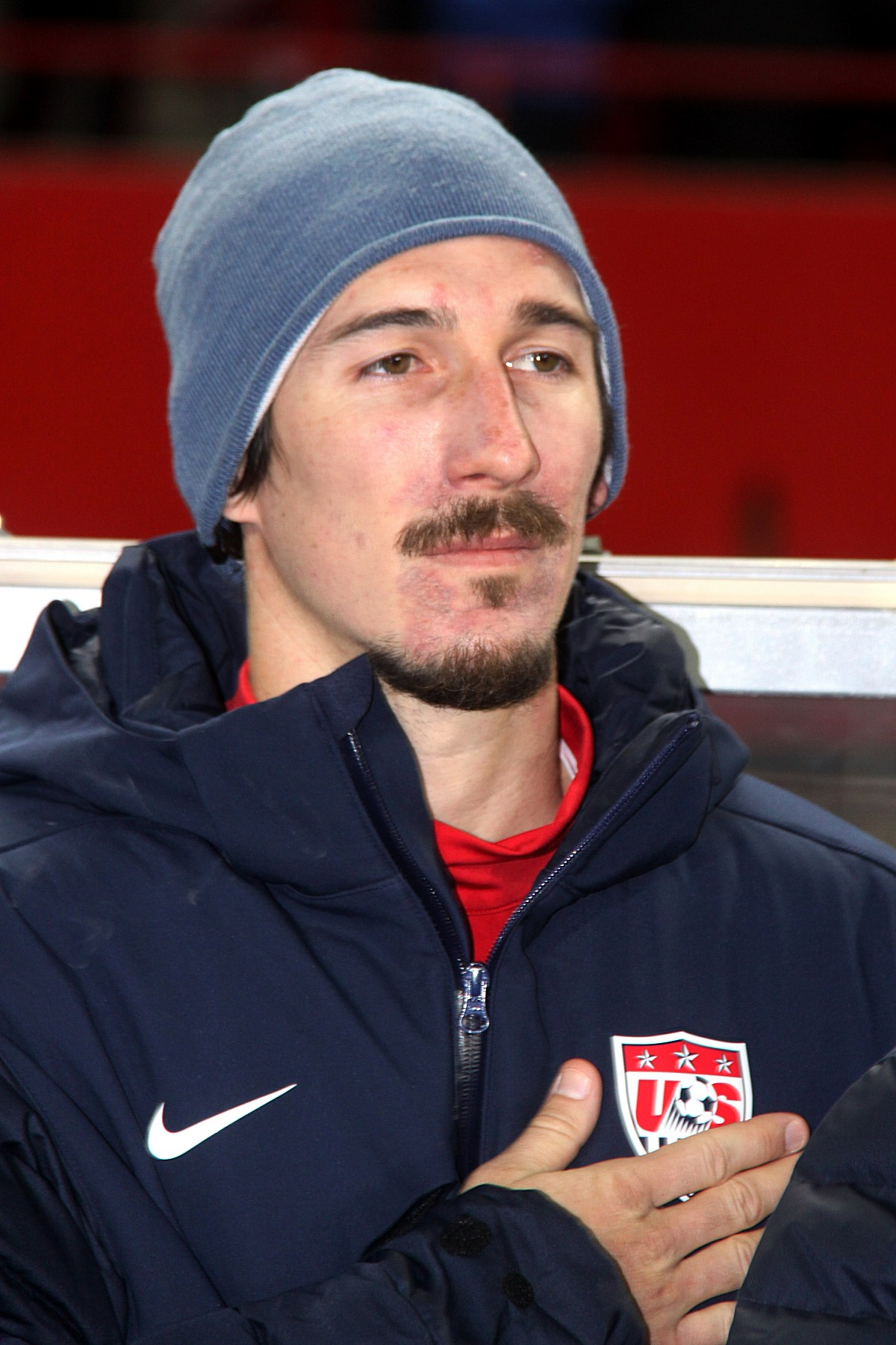 Friendly-match Austria vs. USA (1:0) in the Ernst-Happel-Stadion in Vienna at 2013-03-22. – The photo shows Sacha Kljestan (USA).